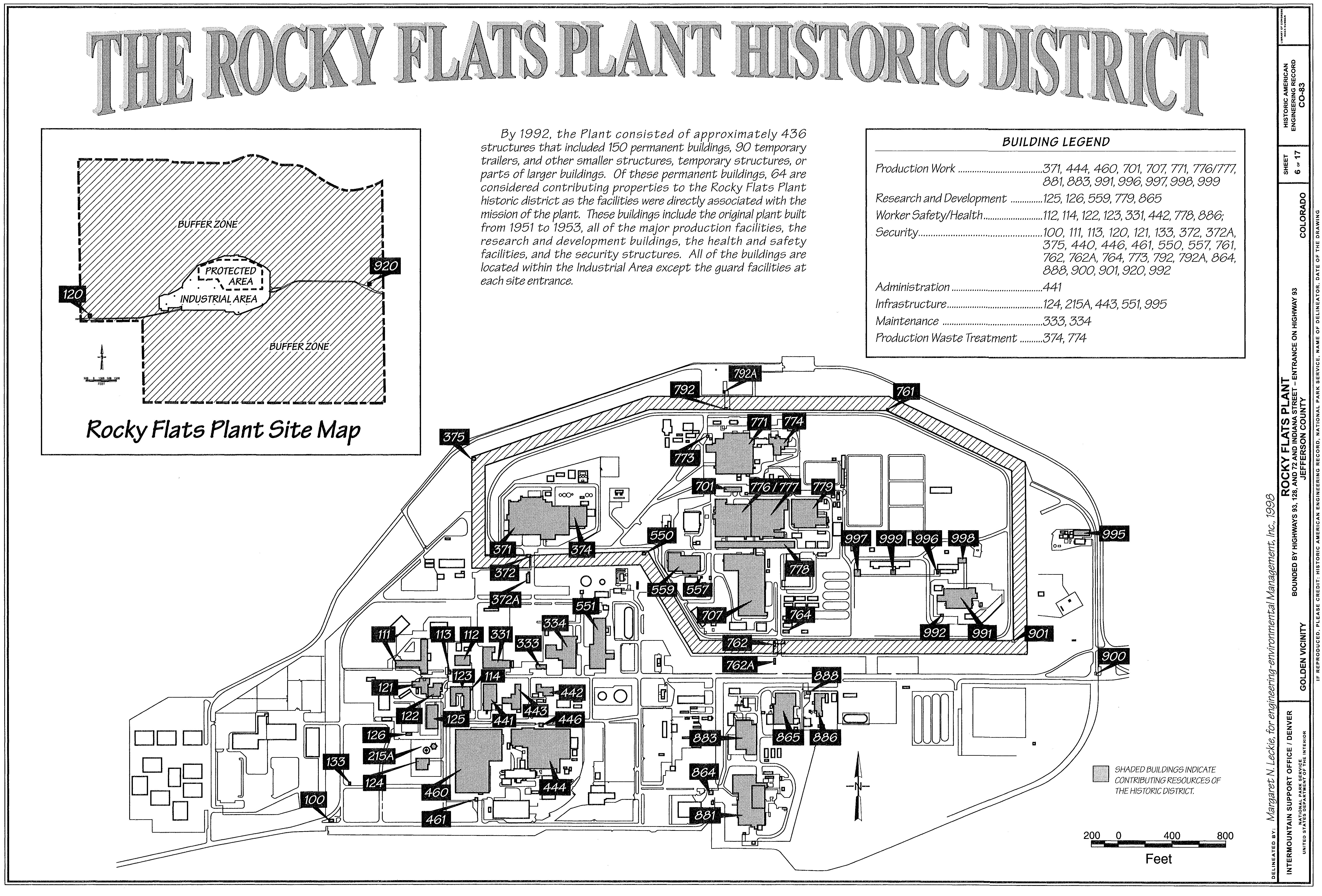 Rocky Flats Plant in the Rocky Flats Plant Historic District - near Denver, Colorado, USA. This is a cropped version of an image (drawing #6) from the Library of Congress online collection; see catalog information below. This image is in the public domain since it was produced by the United States Government. Note too that it is not classified or subject to any restrictions on its dissemination. TITLE: Rocky Flats Plant, Bounded by Indiana Street & Routes 93, 128 & 72, Golden vicinity, Jefferson County, CO CALL NUMBER: HAER COLO,30-GOLD.V,1- REPRODUCTION NUMBER: [See Call Number] MEDIUM: Measured Drawing(s): 17 (24 x 36) Photo(s): 32 (4 x 5 in.) Data Page(s): 116 plus cover page DATE: Documentation compiled after 1968. CREATOR: Historic American Engineering Record, creator NOTE: Survey number HAER CO-83 SUBJECTS: COLORADO--Jefferson County--Golden vicinity factories nuclear facilities OTHER TITLE: Environmental Technology Site COLLECTION: Historic American Engineering Record (Library of Congress) REPOSITORY: Library of Congress, Prints and Photograph Division, Washington, D.C. 20540 USA DIGID: Rocky Flats Plant